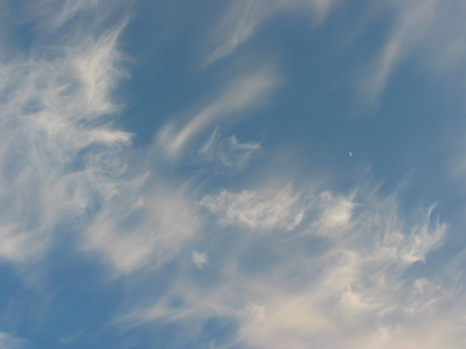 Cirrus clouds.